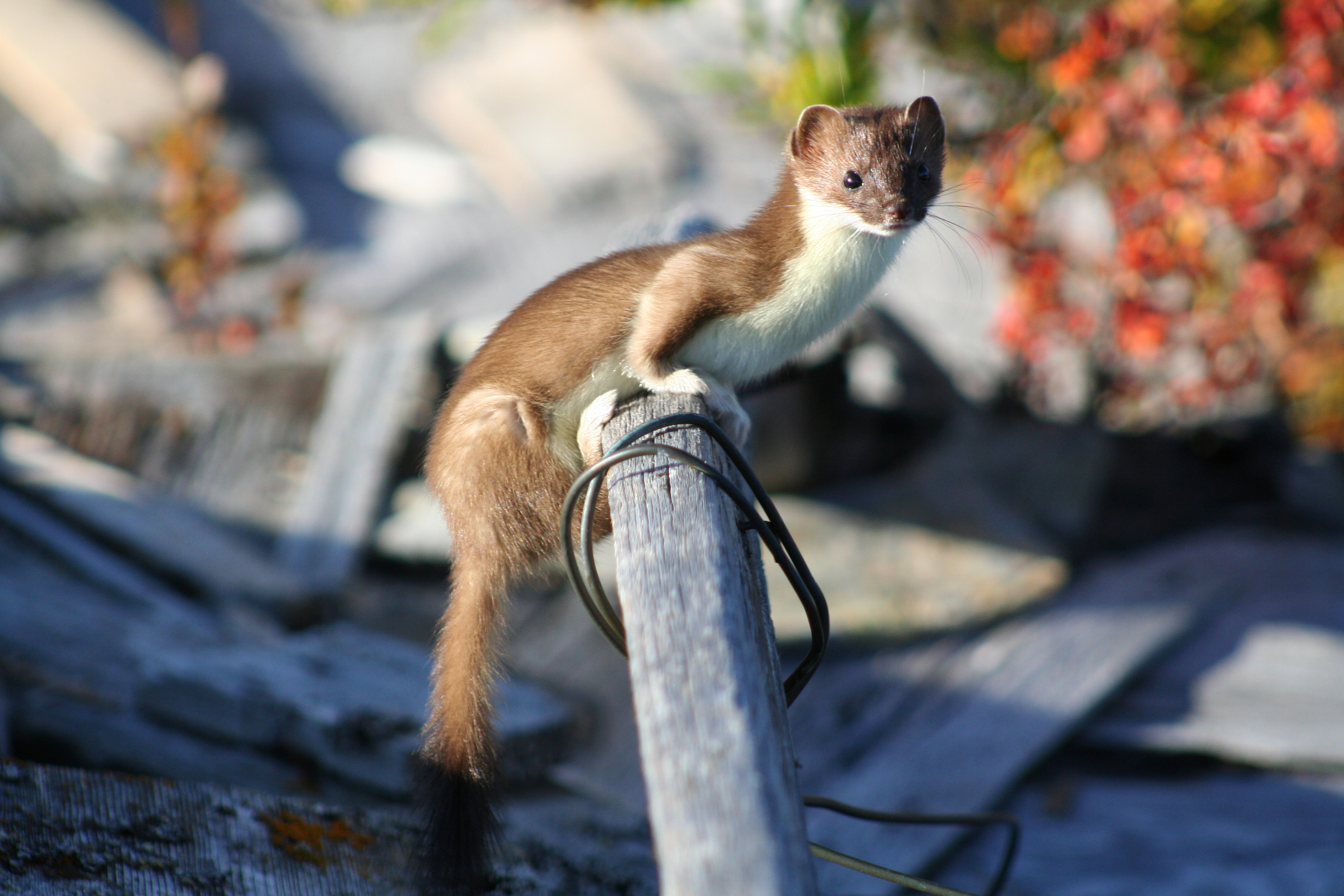 Mustela nivalis eskimo, Latin name of the least weasel of Alaska.